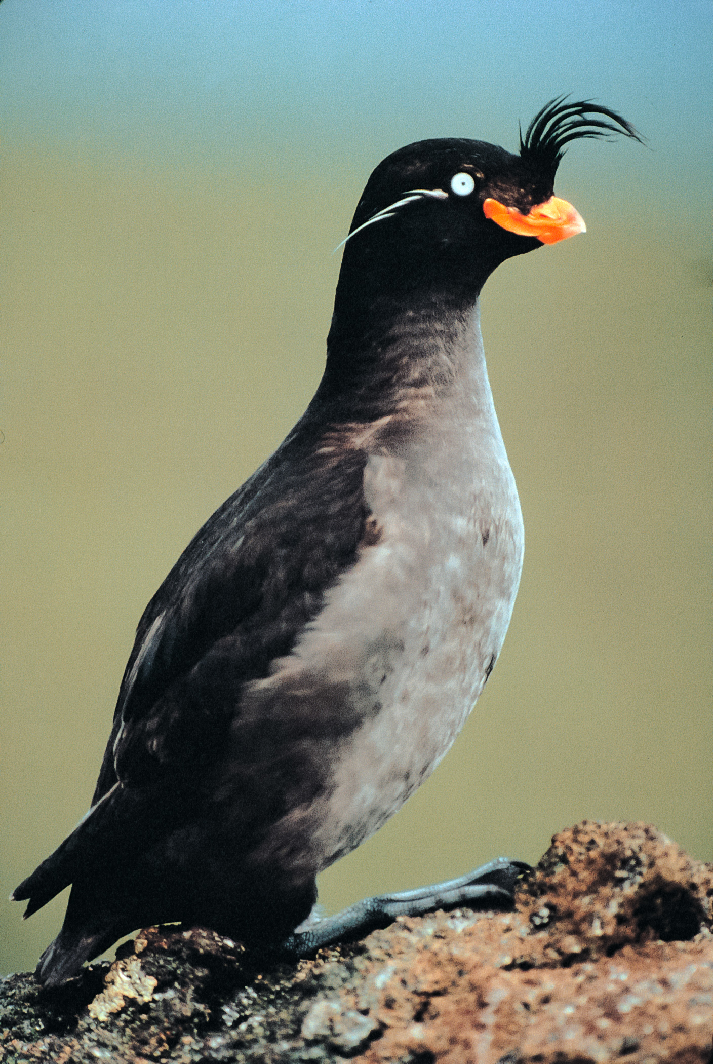 Crested Auklet (Aethia cristatella), Kiska Island, Alaska